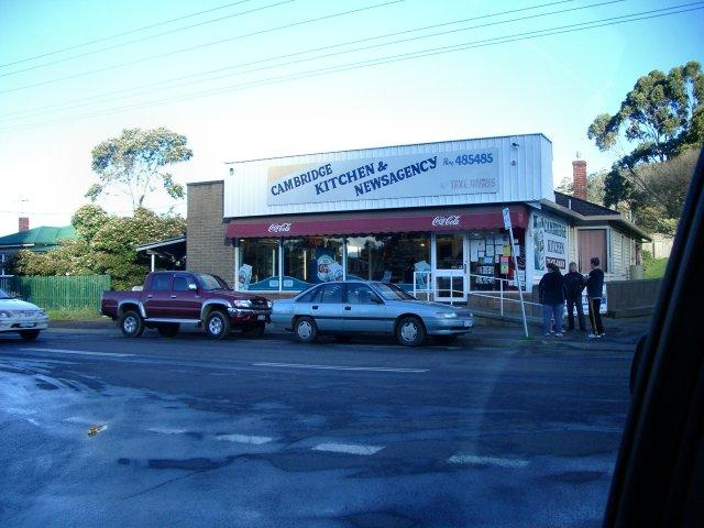 taken by Alan Ingleby, on 7th August 2005.